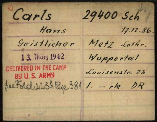 Registry card of Hans Carls as a prisoner at Dachau Nazi Concentration Camp Red stamp means he was liberated from Dachau by the U. S. Army